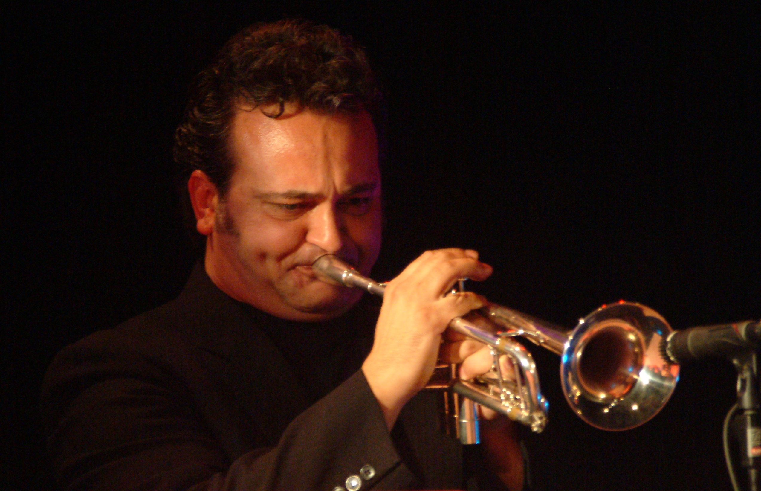 Andrea Tofanelli, italian trumpet player, live 2005 (Rome)